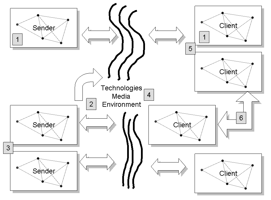 Examples of topologies that occur in real world informing systems from Gill and Bhattacherjee (2007)